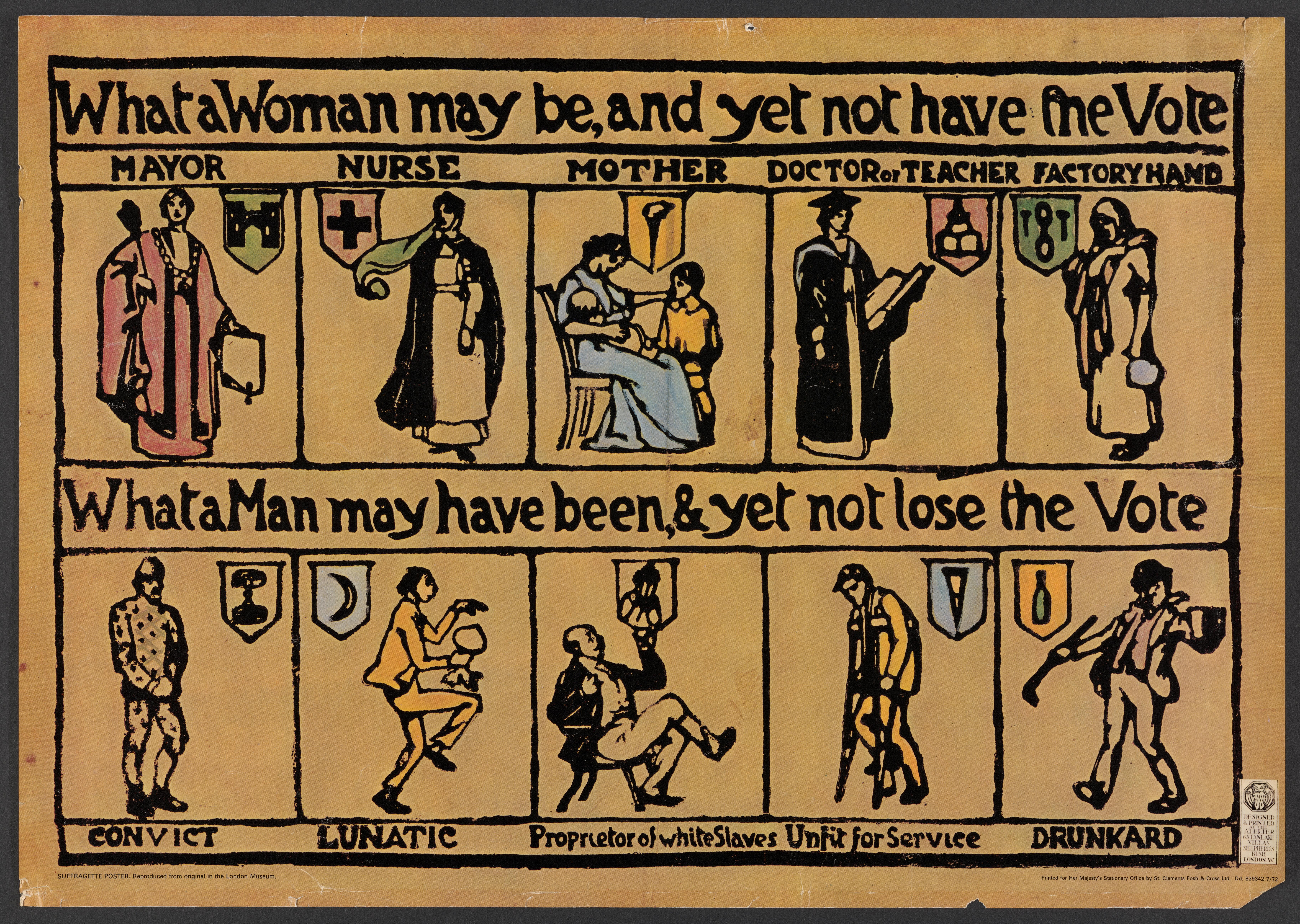 What a woman may be and yet not have the vote. Suffrage Atelier. Catalog Record: Questions?